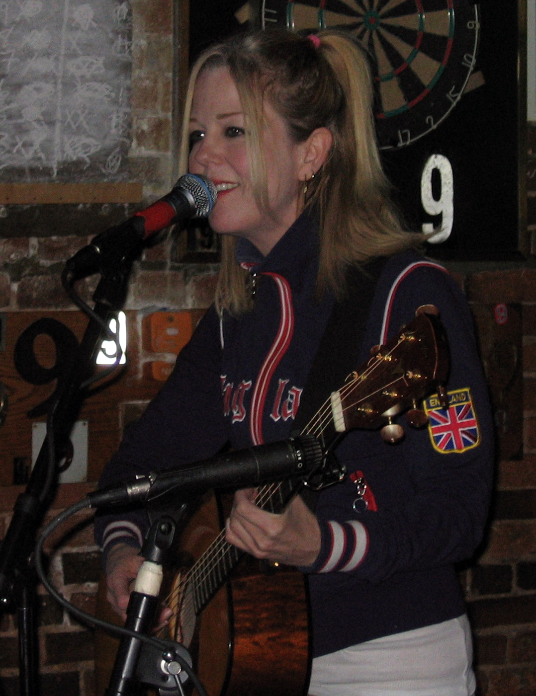 Mary Lou Lord peforming at Cafe Nine in New Haven, CT.